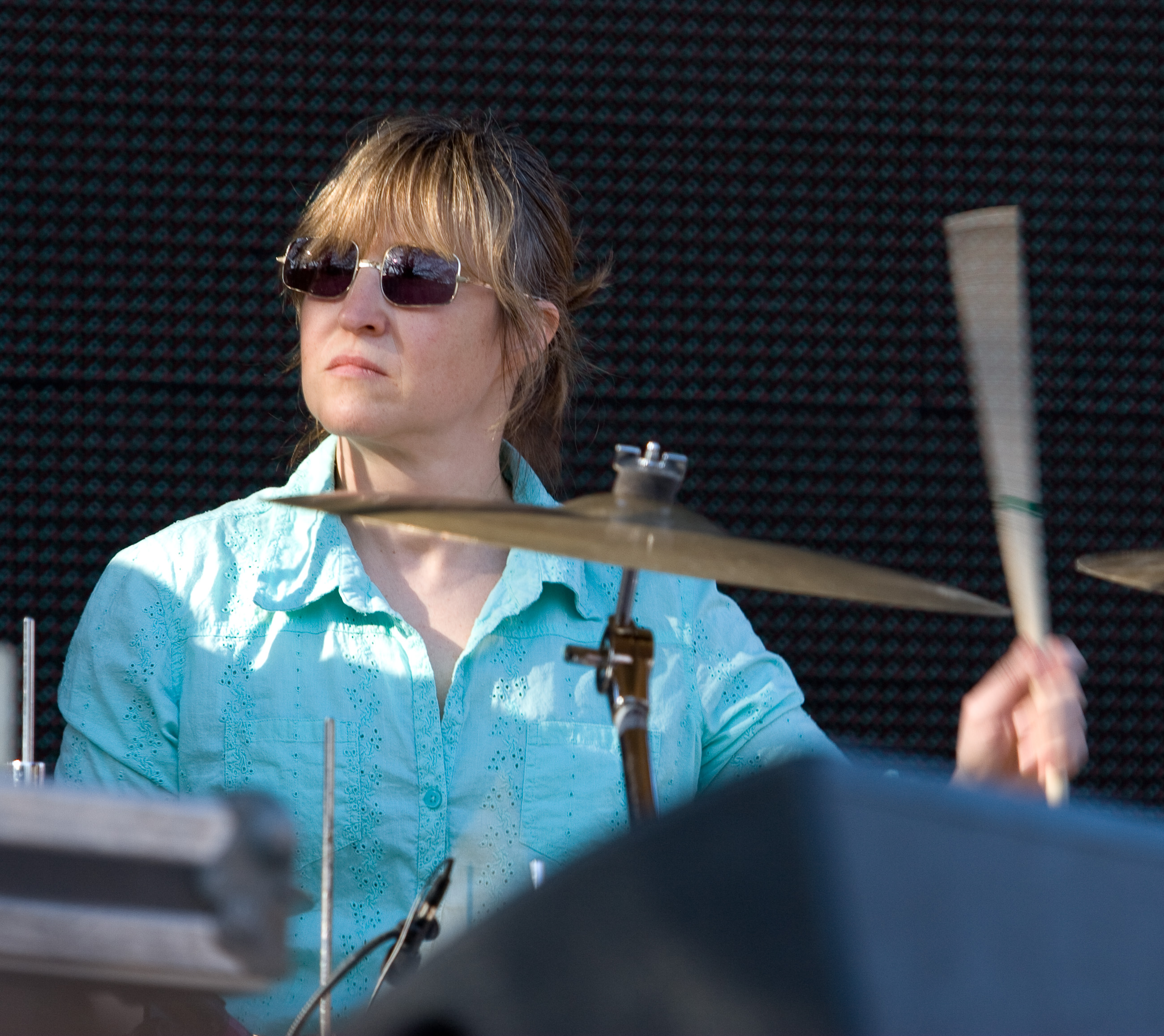 Georgia Hubley of Yo La Tengo performing in Providence, RI in 2007.